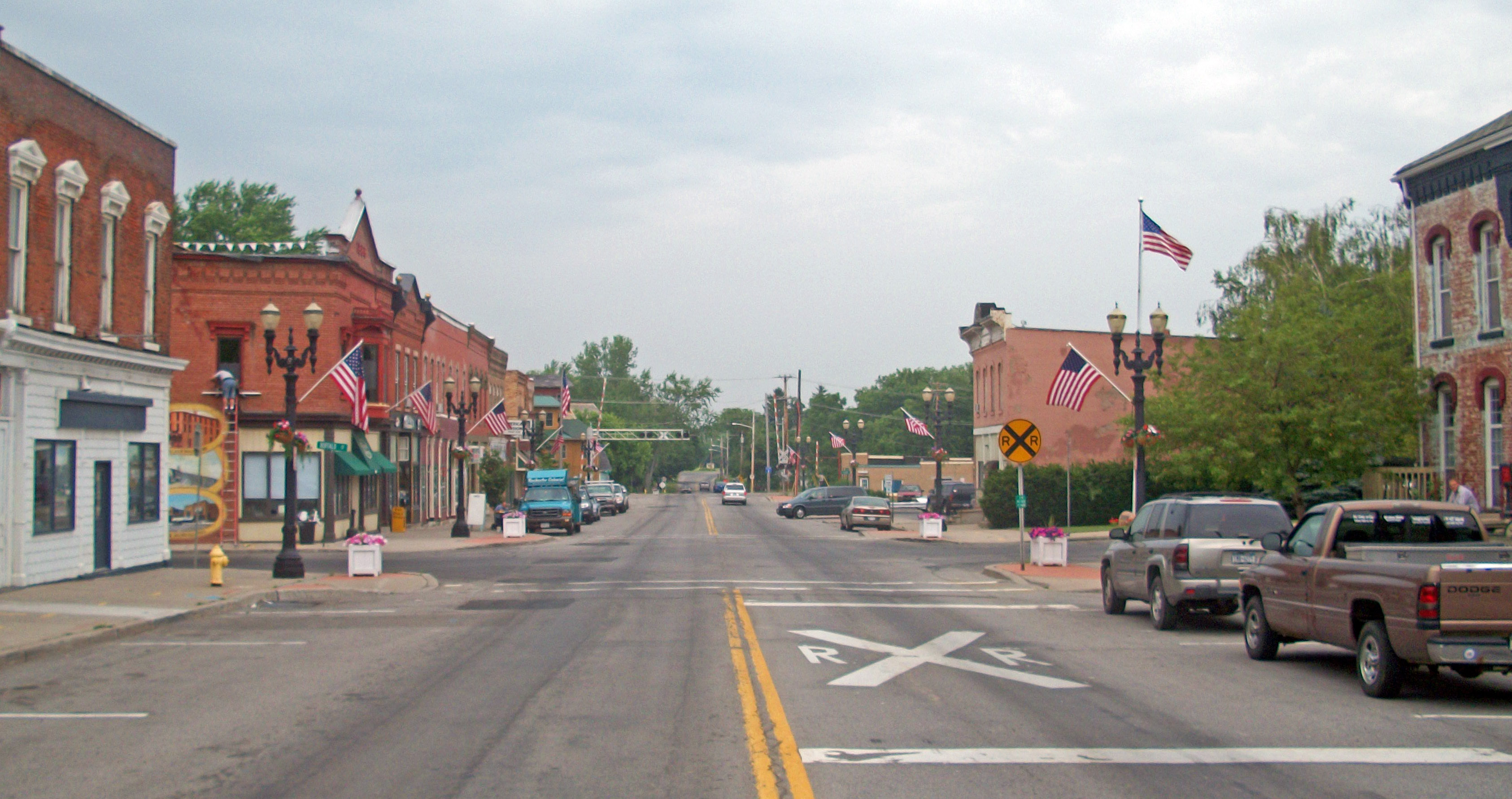 View north along Lake Street (NY 19) in Bergen, NY, USA